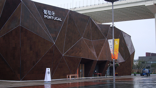 the Portugal pavilion of Shanghai expo2010.